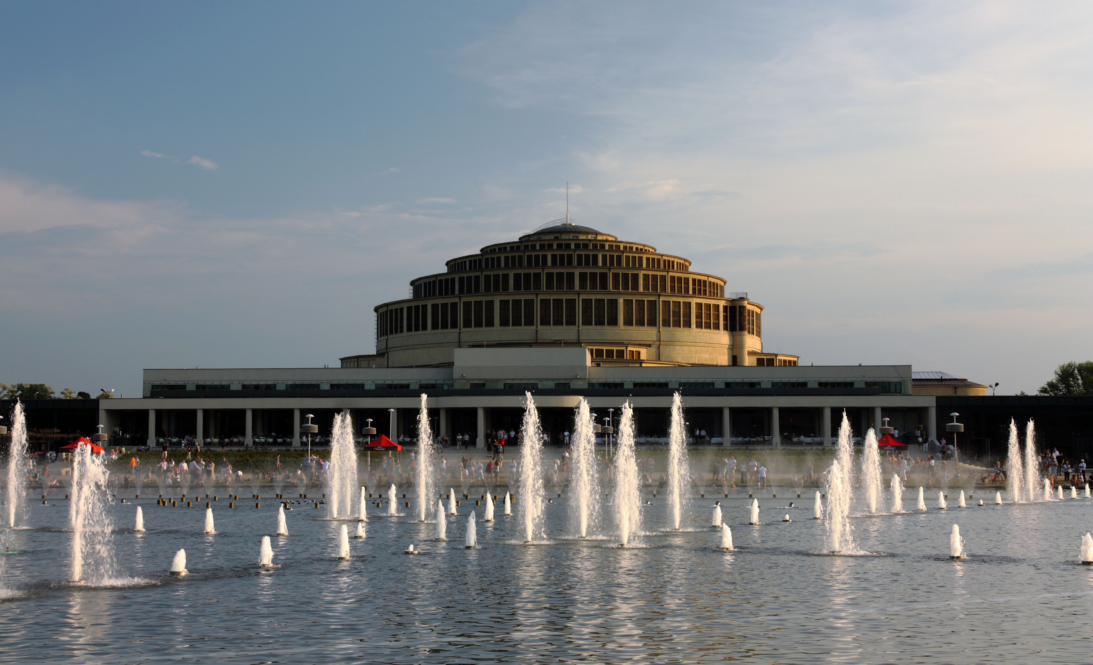 Centennial Hall fountain - afternoon show